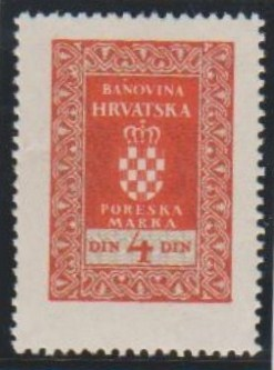 Tax stamp of Banovina of Croatia (1939-1941)